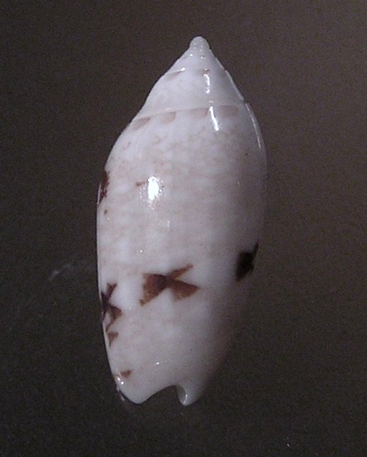 Oliva chrysoplecta Tursch & Greifeneder, 1989; an olive snail from the family Olividae; Philippines]